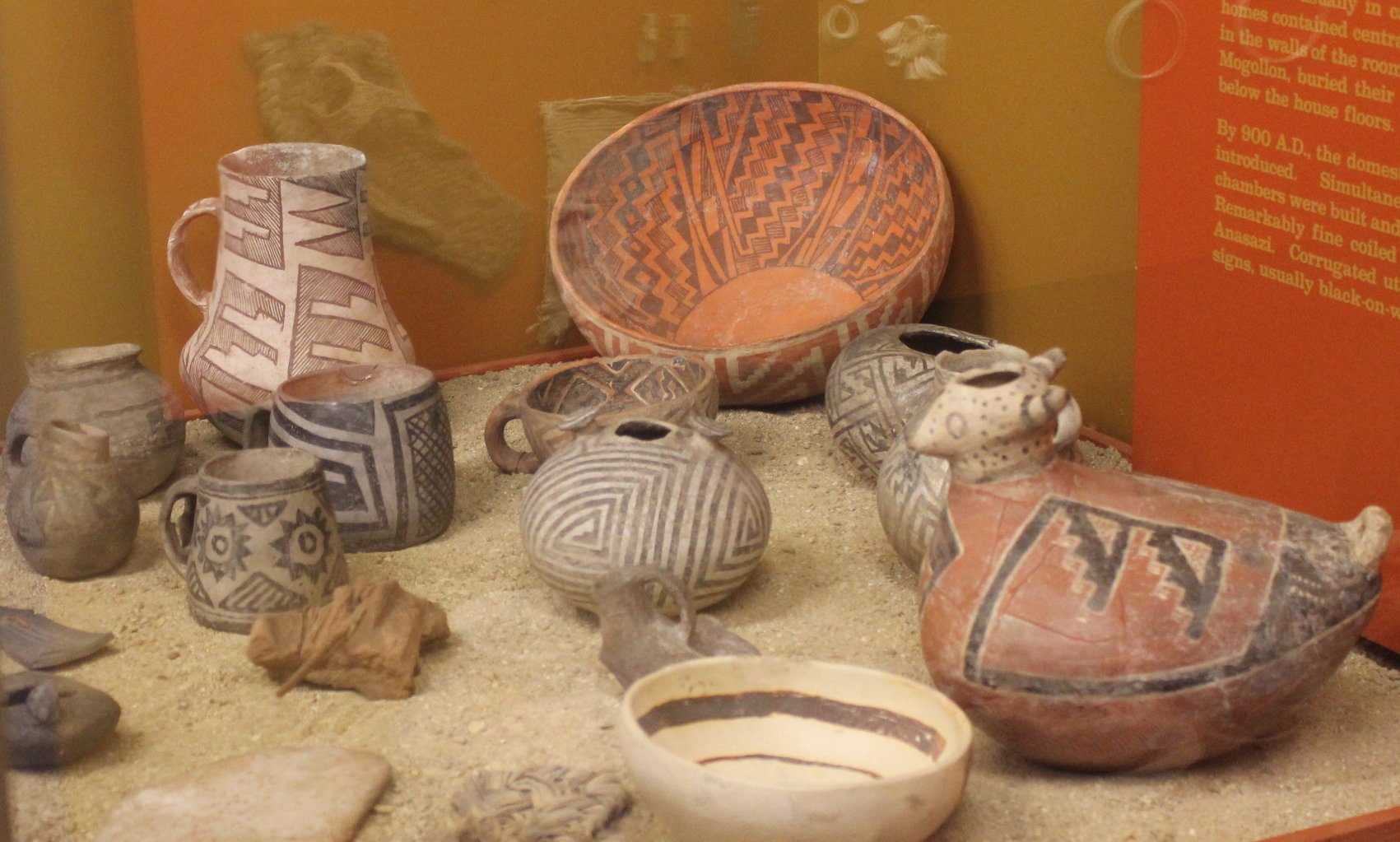 Historical Relics and Artwork Pottery of the Anasazi people